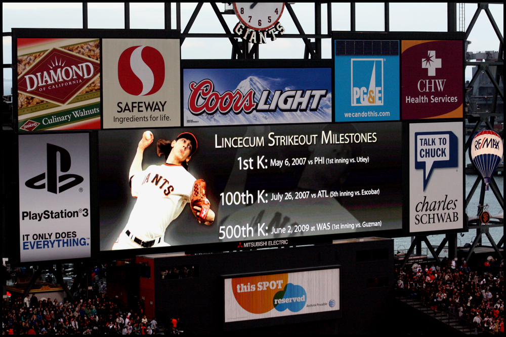 History of Lincecum's 1000 Strikeouts.